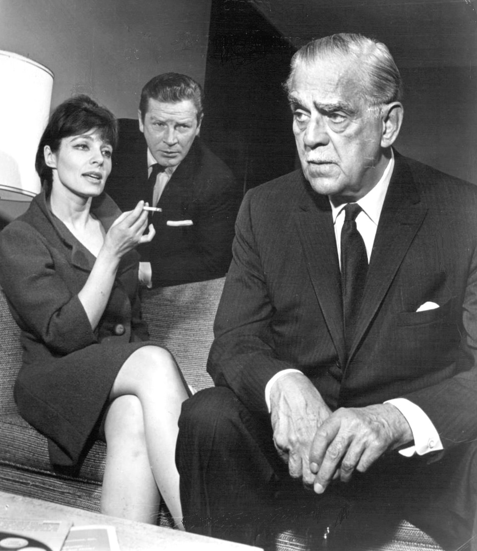 Photo from the Theatre '62 presentation of "The Paradine Case". In the photo are Viveca Lindfors, Richard Basehart and Boris Karloff.